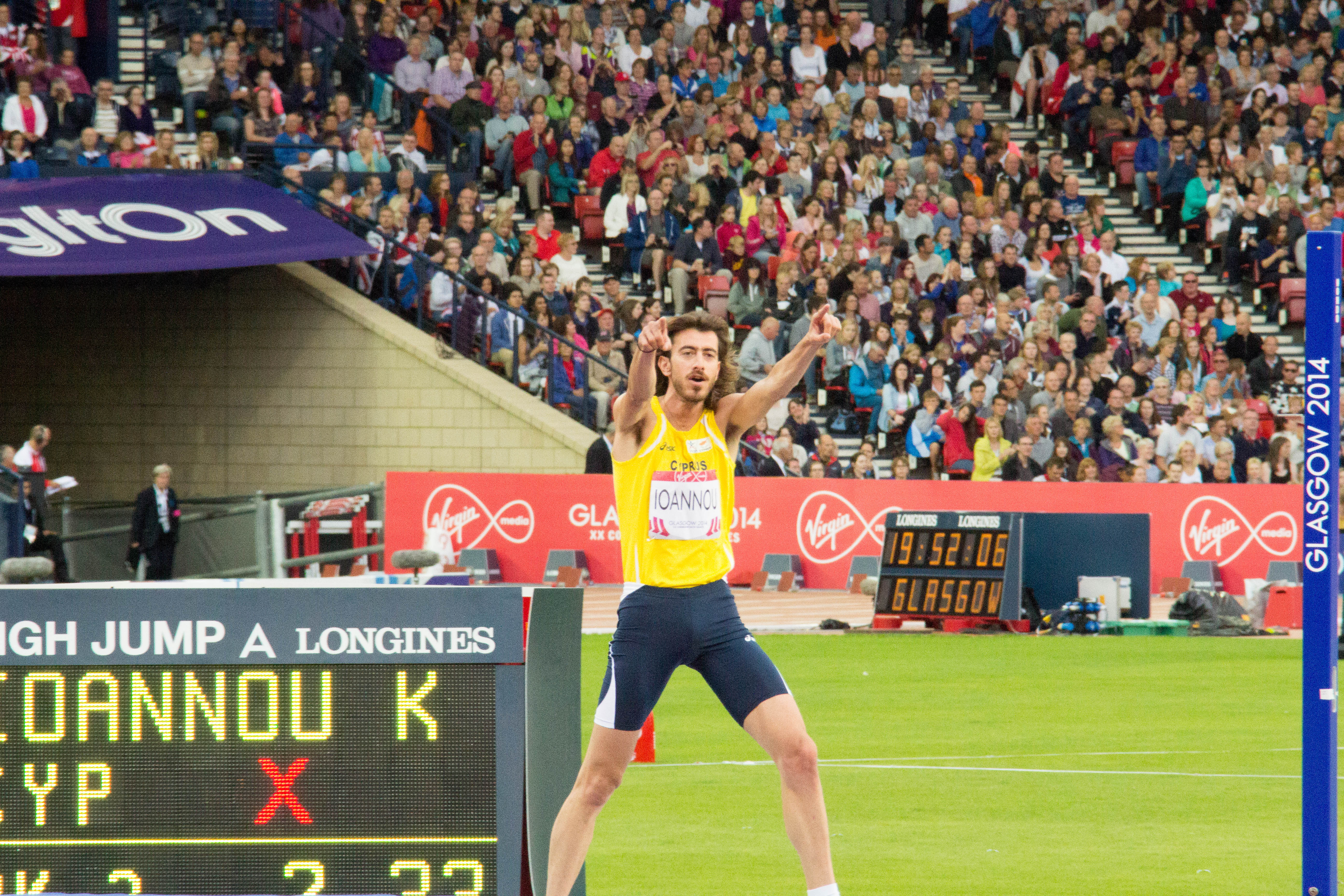 Commonwealth Games 2014 - Athletics Day 4 2014 Commonwealth Games Day 4: Athletics